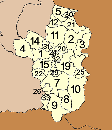 Map of Ubon Ratchathani province, Thailand, with the districts (Amphoe) numbered. Note that the numbering follows the official geocodes used in census reports, hence the missing numbers are correct. The Amphoe missing in the list form the Amnat Charoen province since 1993. Mueang Ubon Ratchathani (อำเภอเมืองอุบลราชธานี) Si Mueang Mai (อำเภอศรีเมืองใหม่) Khong Chiam (อำเภอโขงเจียม) Khueang Nai (อำเภอเขื่องใน) Khemarat (อำเภอเขมราฐ) Det Udom (อำเภอเดชอุดม) Na Chaluai (อำเภอนาจะหลวย) Nam Yuen (อำเภอน้ำยืน) Buntharik (อำเภอบุณฑริก) Trakan Phuet Phon (อำเภอตระการพืชผล) Kut Kaopun (อำเภอกุดข้าวปุ้น) Muang Sam Sip (อำเภอม่วงสามสิบ) Warin Chamrap (อำเภอวารินชำราบ) Phibun Mangsahan (อำเภอพิบูลมังสาหาร) Tan Sum (อำเภอตาลสุม) Pho Sai (อำเภอโพธิ์ไทร) Samrong (อำเภอสำโรง) Don Mot Daeng (อำเภอดอนมดแดง) Sirindhorn (อำเภอสิรินธร) Thung Si Udom (อำเภอทุ่งศรีอุดม) Na Yai (กิ่งอำเภอนาเยีย) Na Tan (กิ่งอำเภอนาตาล) Lao Suea Kok (กิ่งอำเภอเหล่าเสือโก้ก)) Sawang Wirawong (กิ่งอำเภอสว่างวีระวงศ์) Nam Khun (กิ่งอำเภอน้ำขุ่น)